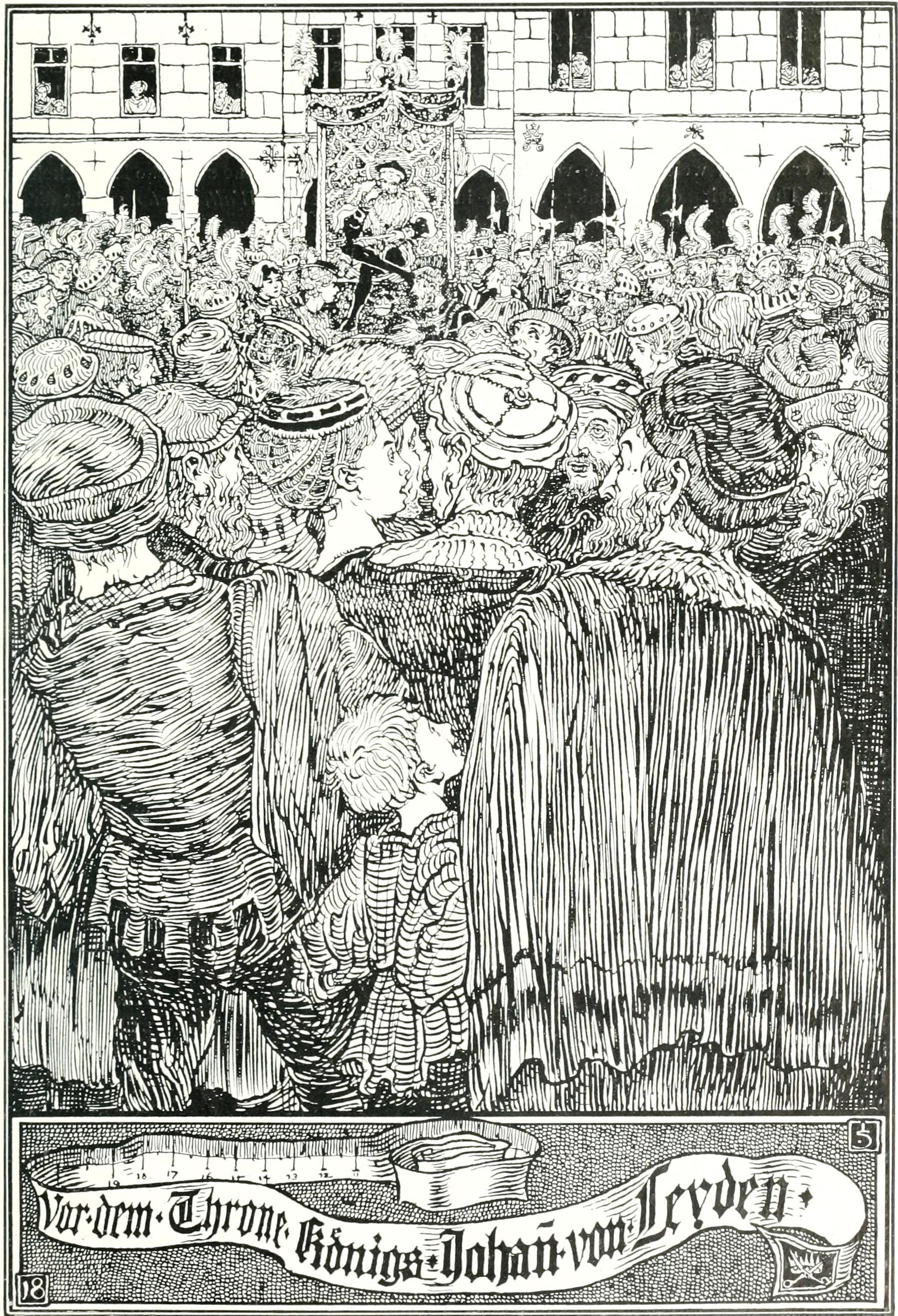 Before the throne of king Jan van Leyden.